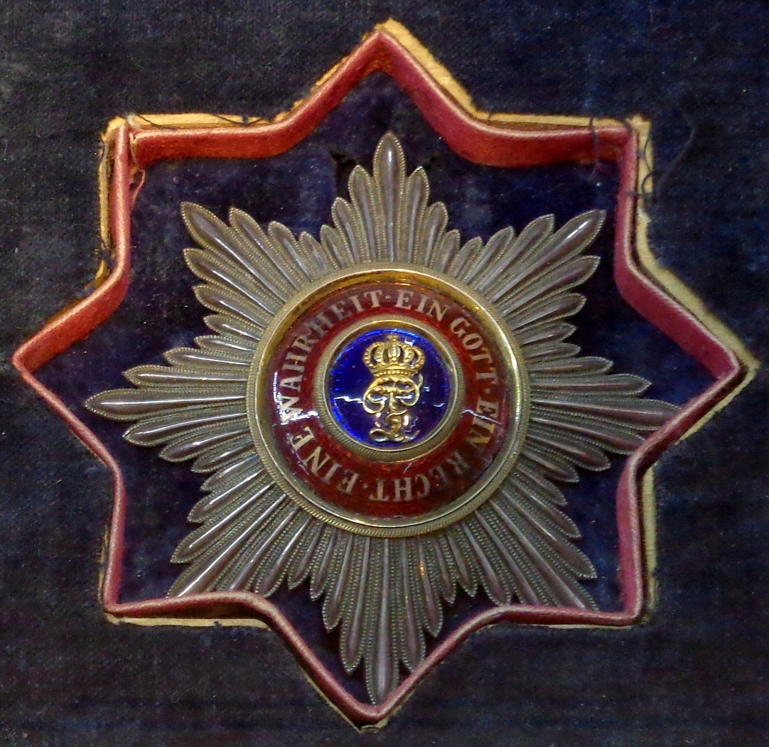 House and Merit Order of Peter Frederick Louis, star of Grand Cross, 1863-1865. Grand Duchy of Oldenburg. The exhibition of the Tallinn Museum of Orders of Knighthood, Estonia.